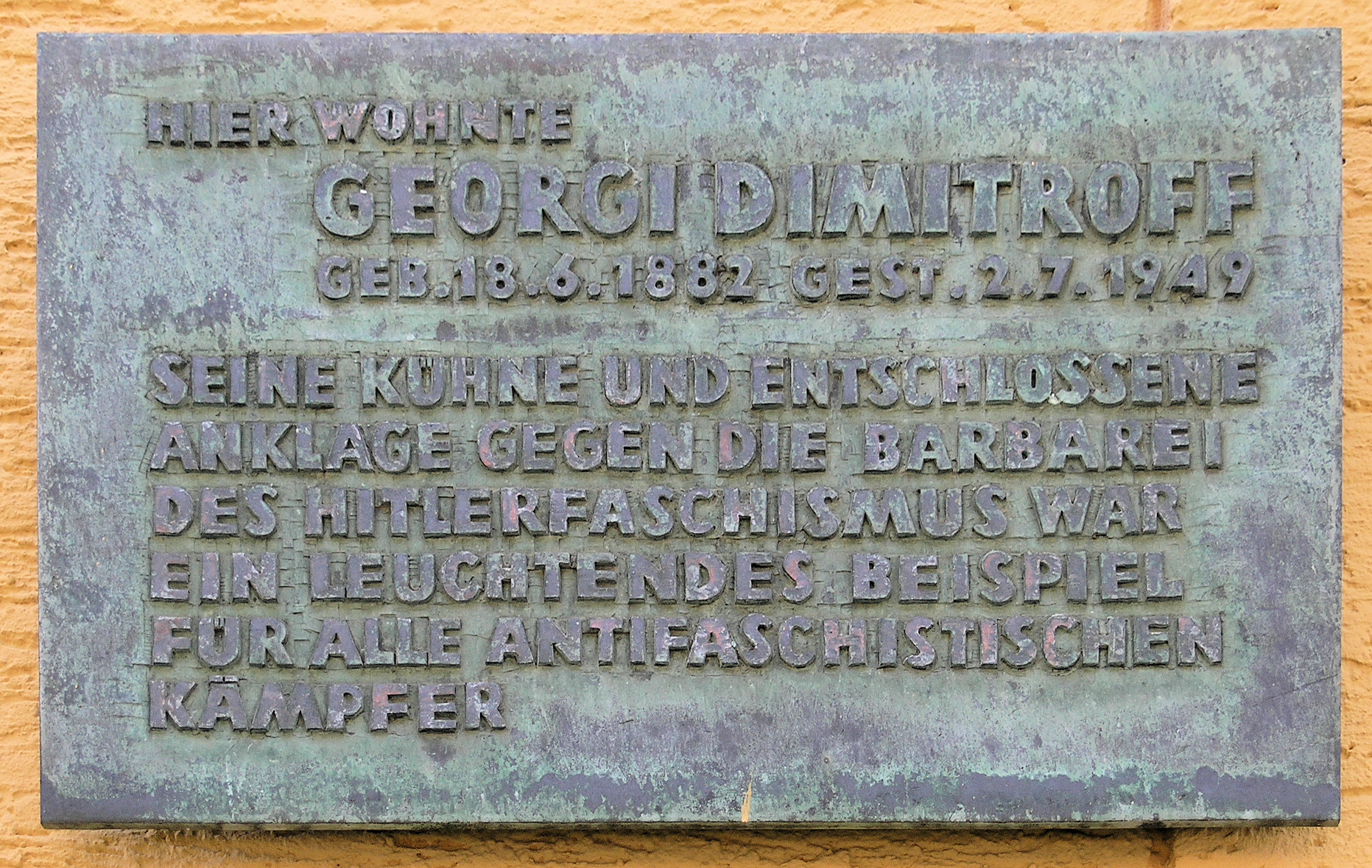 Memorial plaque, Georgi Dimitroff, Anna-Seghers-Straße 91, Berlin-Adlershof, Germany Koordinate:52°26′15″N 13°32′30″E / 52.4375°N 13.54167°E